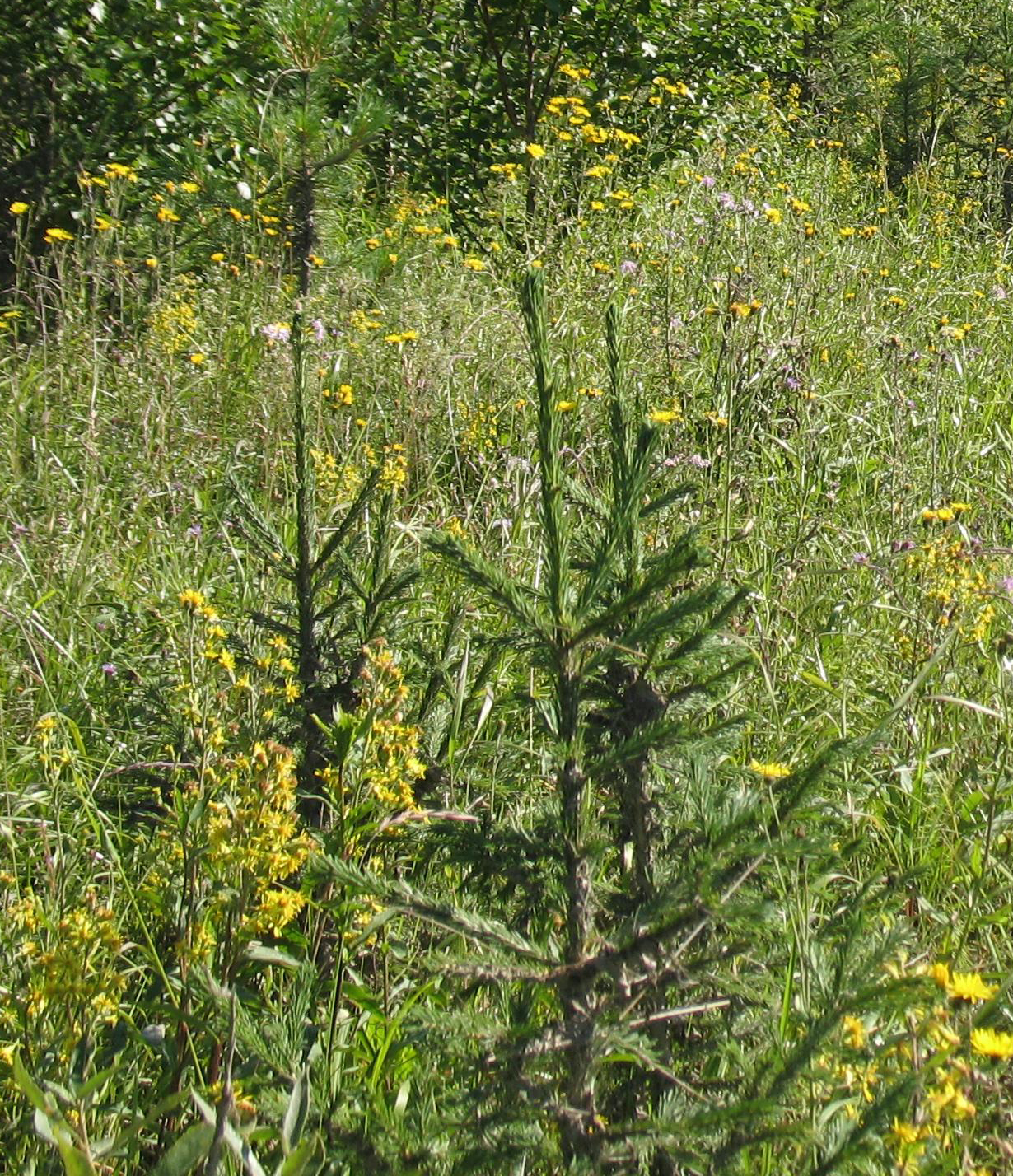 Picea obovata saplings in a meadow, Ural Mountains, Khanty-Mantsiya Autonomous Okrug